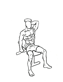 an exercise of triceps